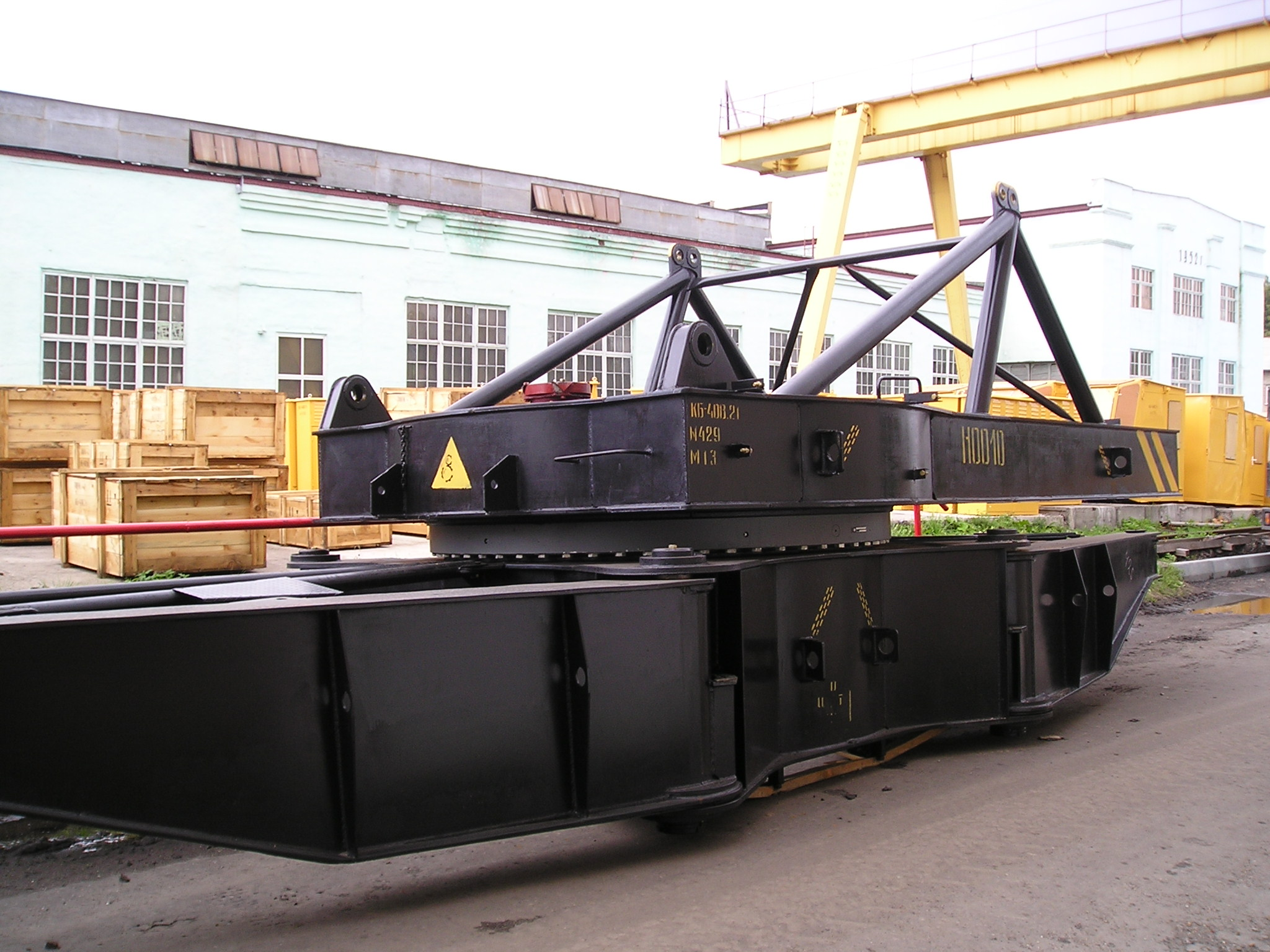 Base frame and rotating platform of a tower crane